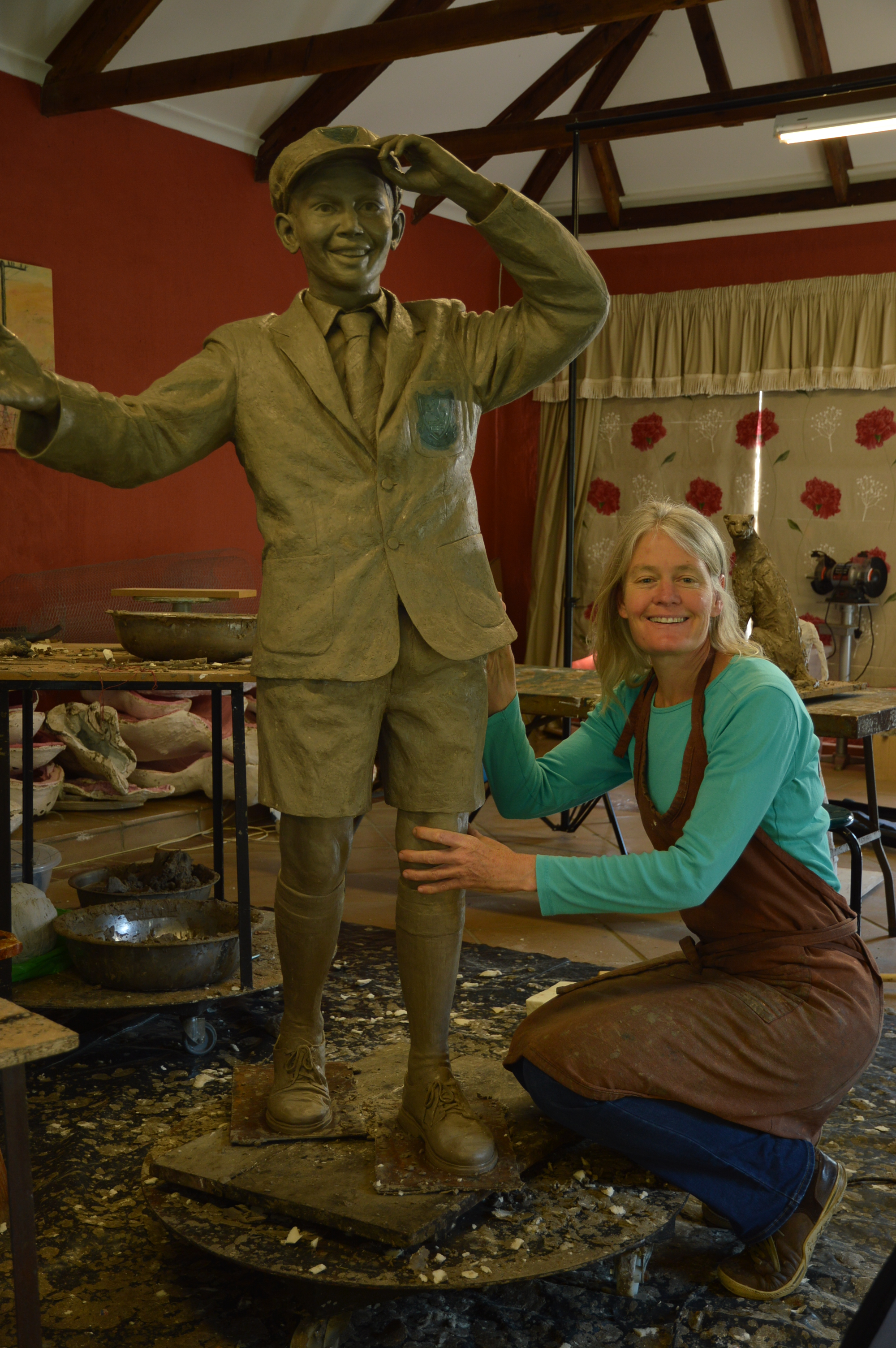 Artist Sarah Richards completing a commissioned sculpture in wax to be cast into Bronze for WHPS - Waterkloof House Preparatory School in Pretoria. 1.5m high